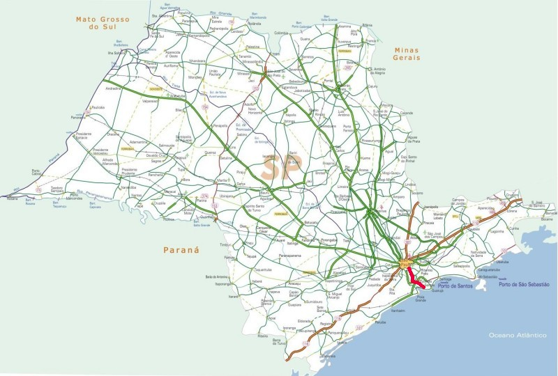 Map of Rodovia Anchieta, a highway in the state of São Paulo, Brazil, drawn on a public domain map by the Ministry of Transportation, Brazil.